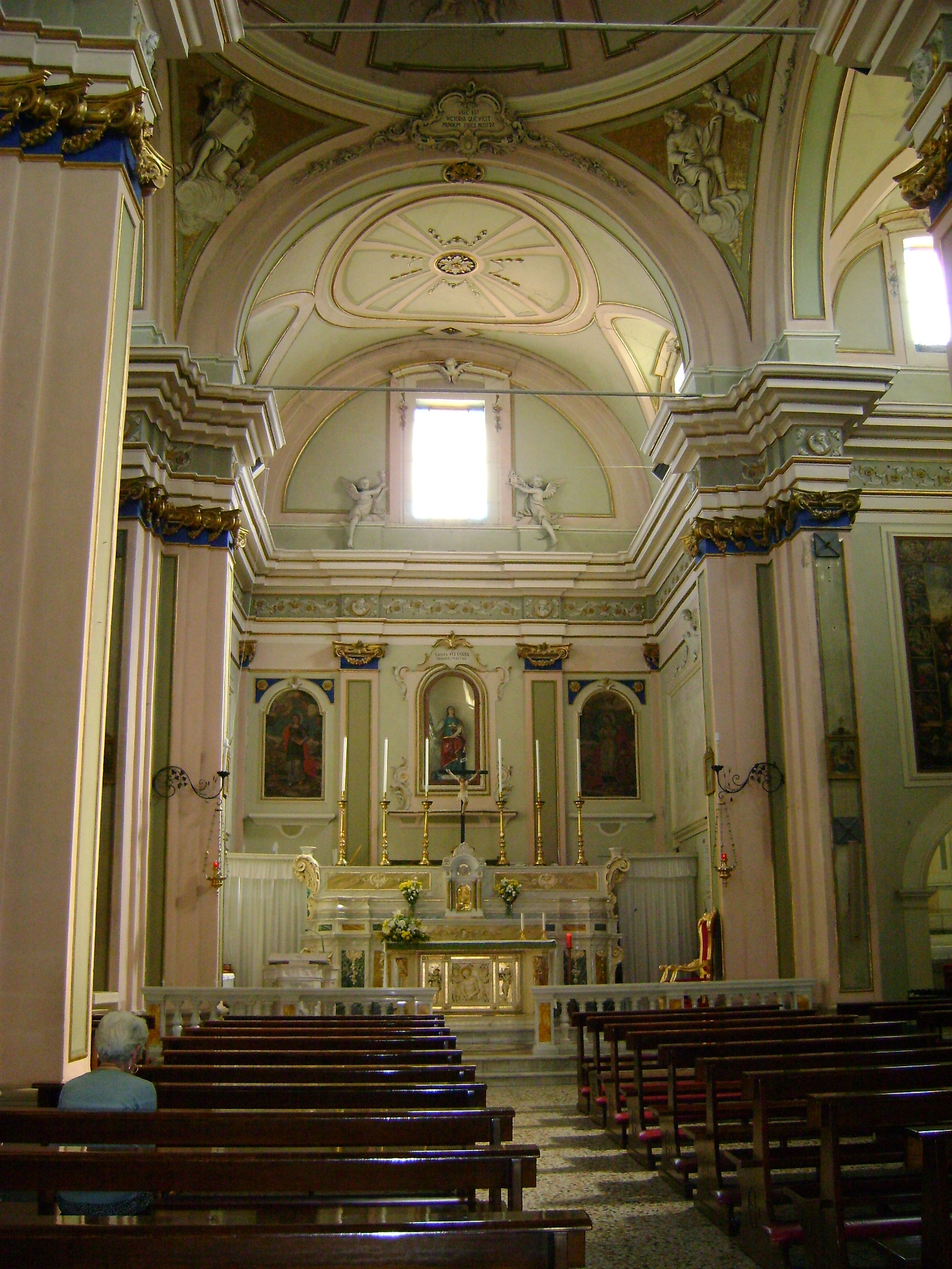 The interior of the church of Santa Vittoria, Tornareccio, province of Chieti, Abruzzo